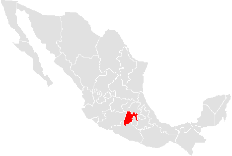 A map of the State of Mexico made by me